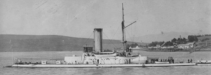 USS Monterey, a monitor type warship completed in 1893 for the U.S. Navy.